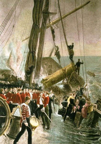 The picture, which was very well received at the time, was exhibited in England in 1893 and prints of it widely distributed to the public.